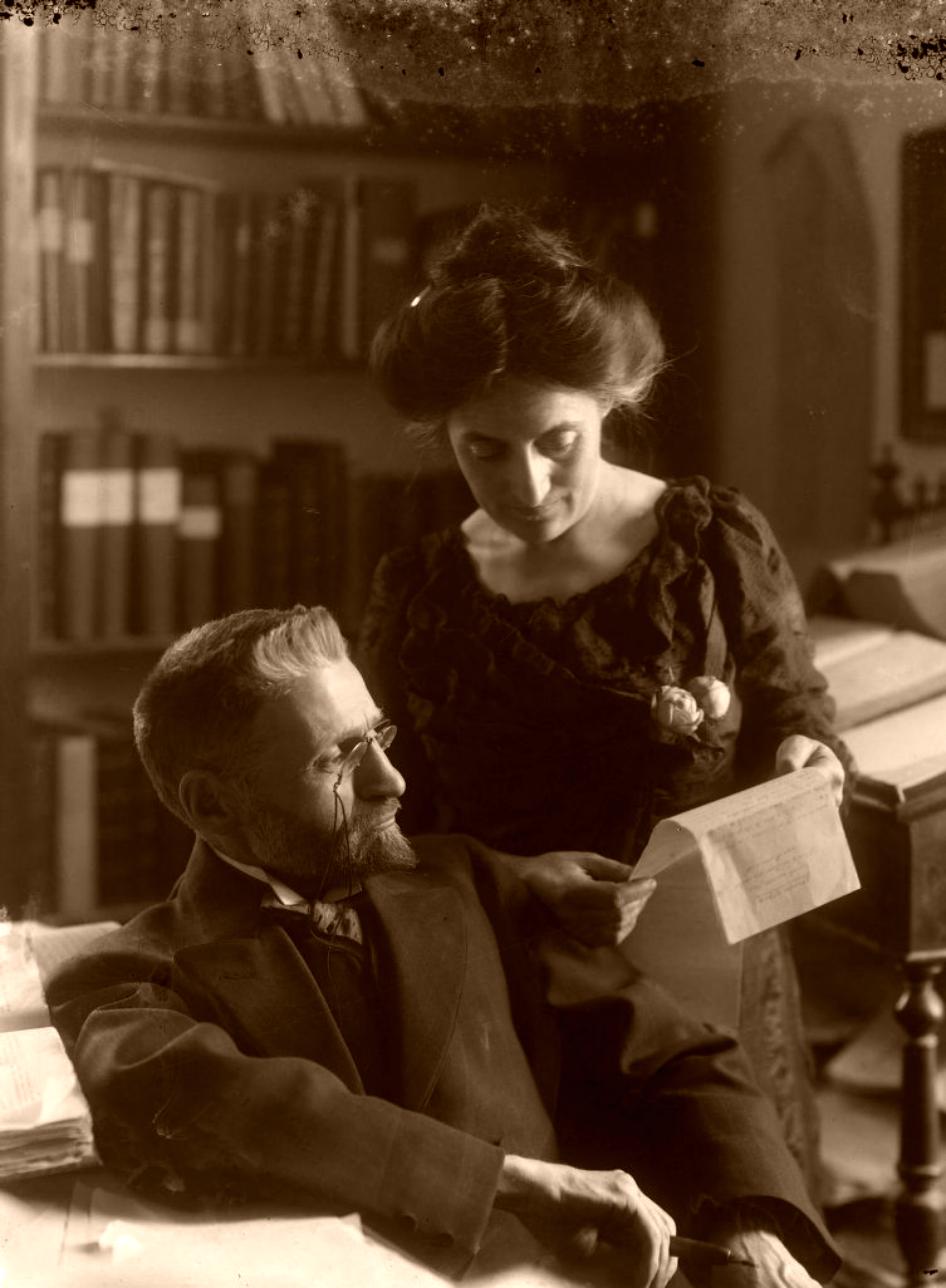 Portrait of Eliezer and Hemda Ben-Yehuda, their house in Talpiot neighbourhood.